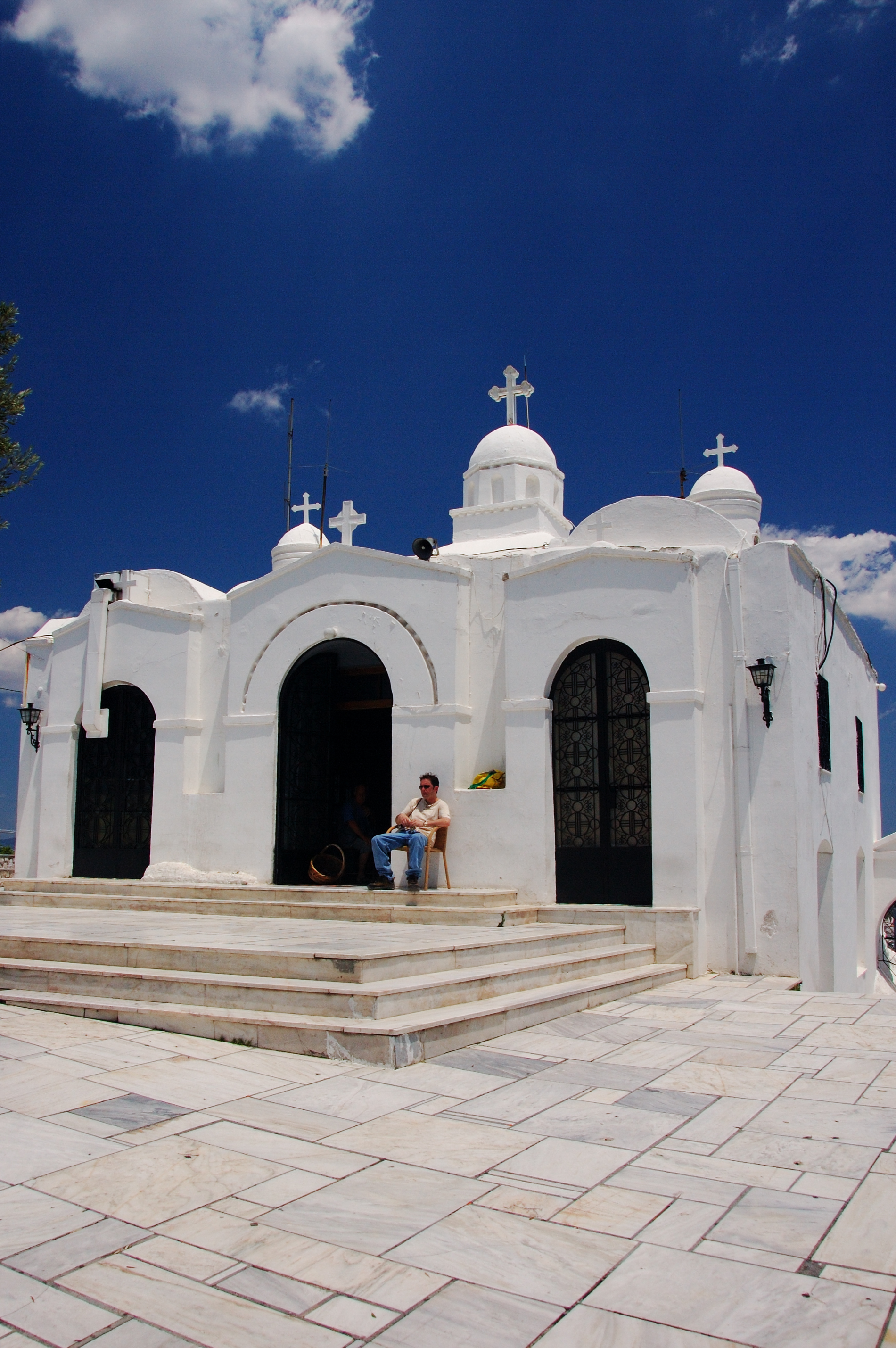 The Chapel of St. George on top of mount Lycabettus in the city of Athens, Greece.